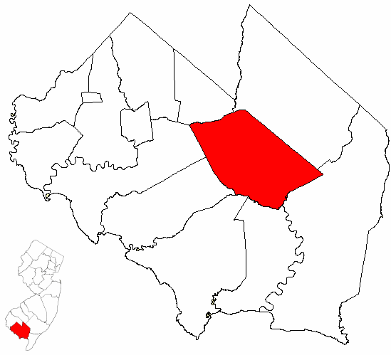 Map of Cumberland County highlighting Millville